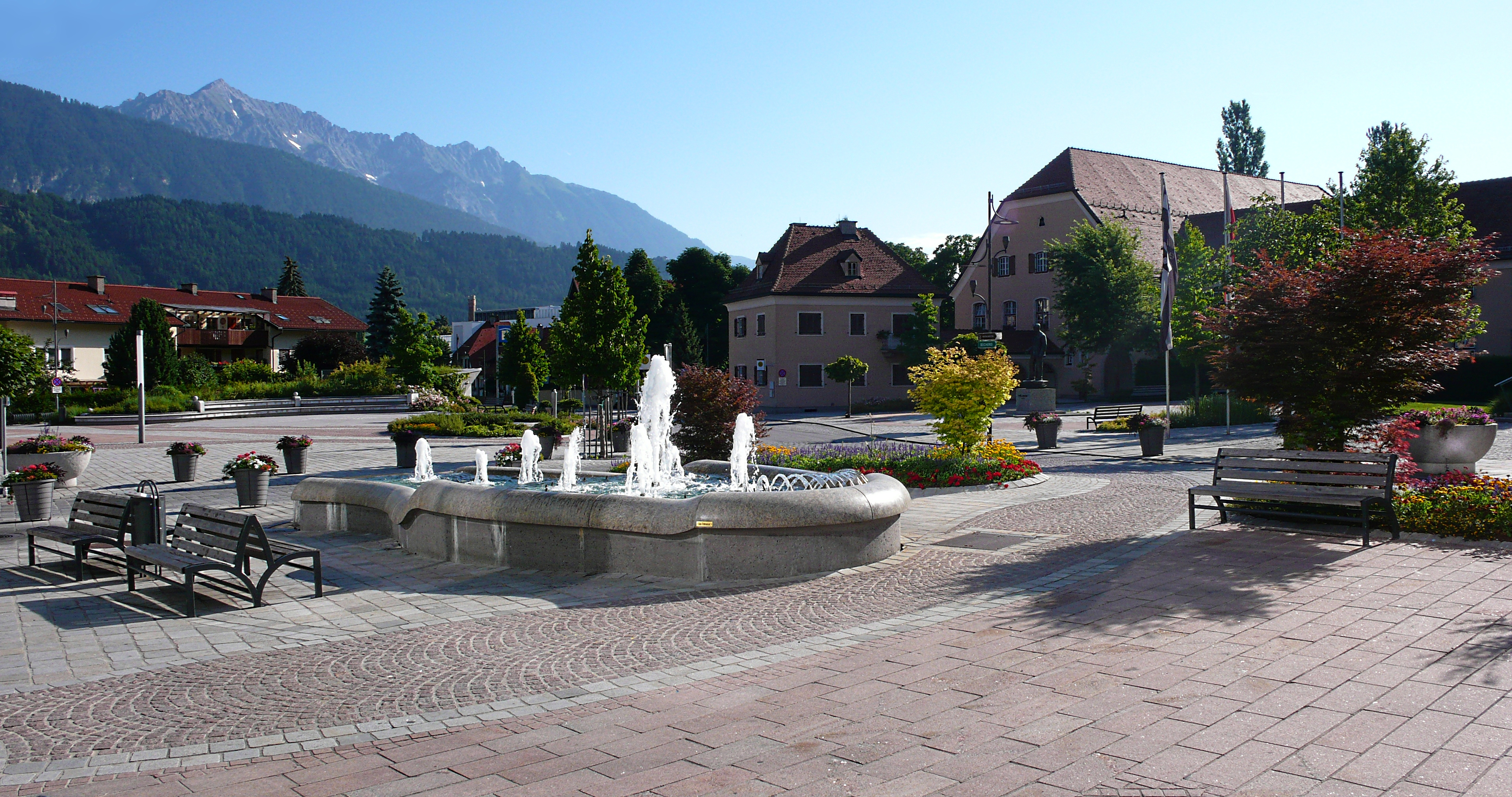 Kirchplatz Wattens, in the background the mountain Hochnissl